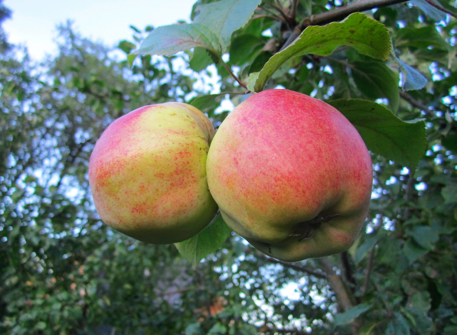 Apples of Estonian appletree cultivar ’Talvenauding’ in Viimsi Parish (Harju County)